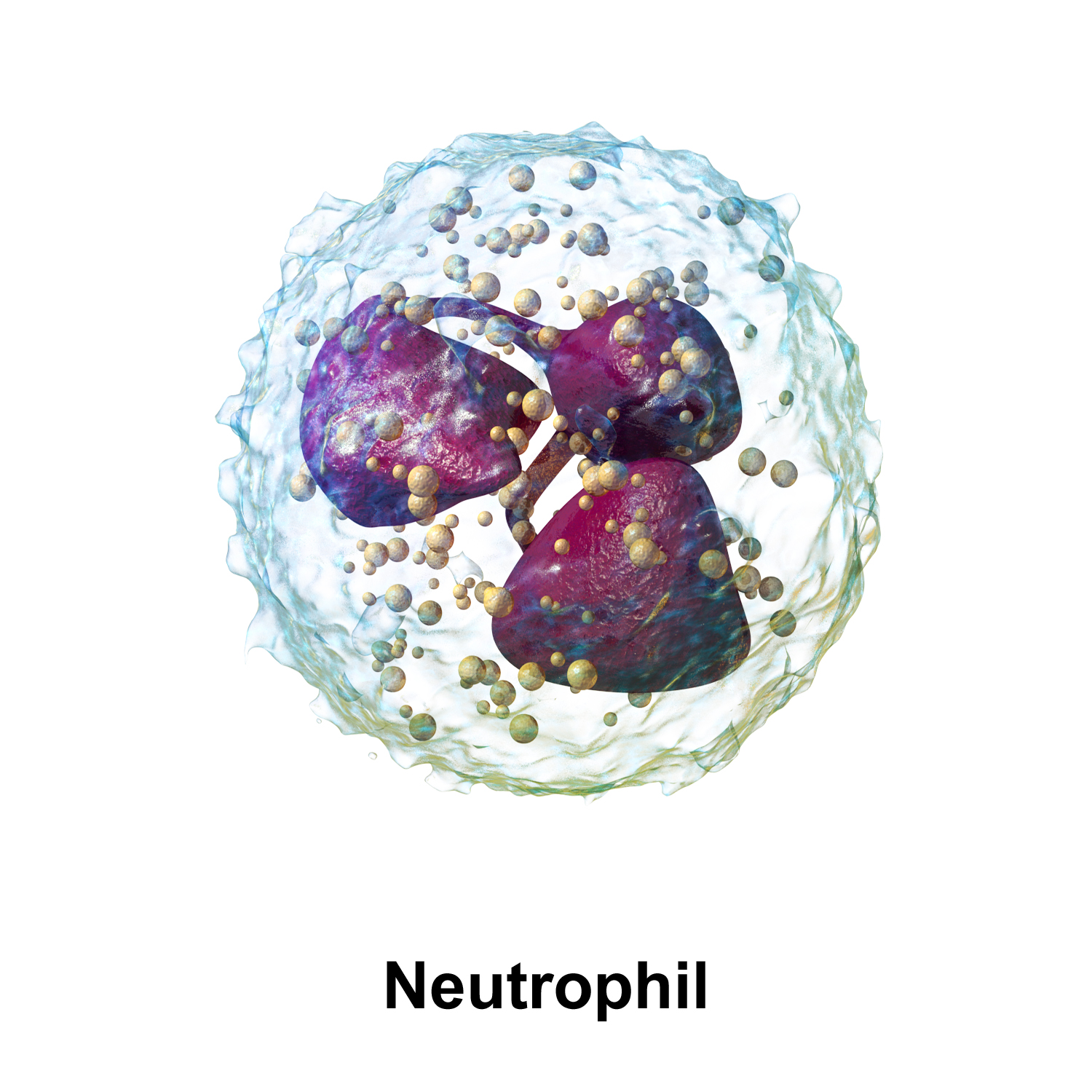 Neutrophil. See a full animation of this medical topic.